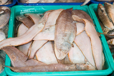 Cynoglossus cynoglossus